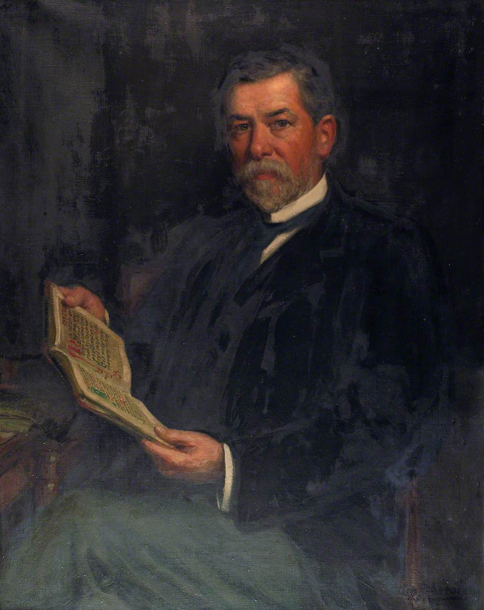 A painting from the Framed Works of Art collection at the National Library of wales.